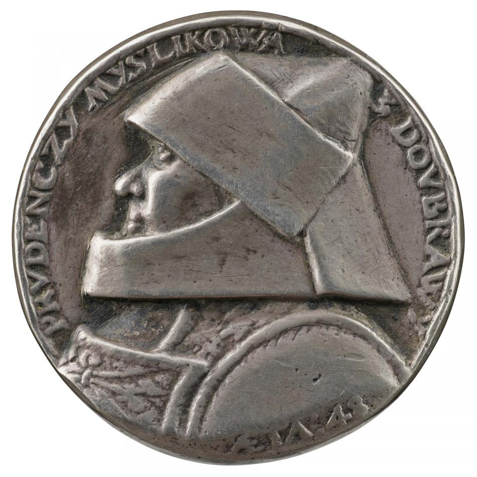 Prudencie Myslíková z Doubravy